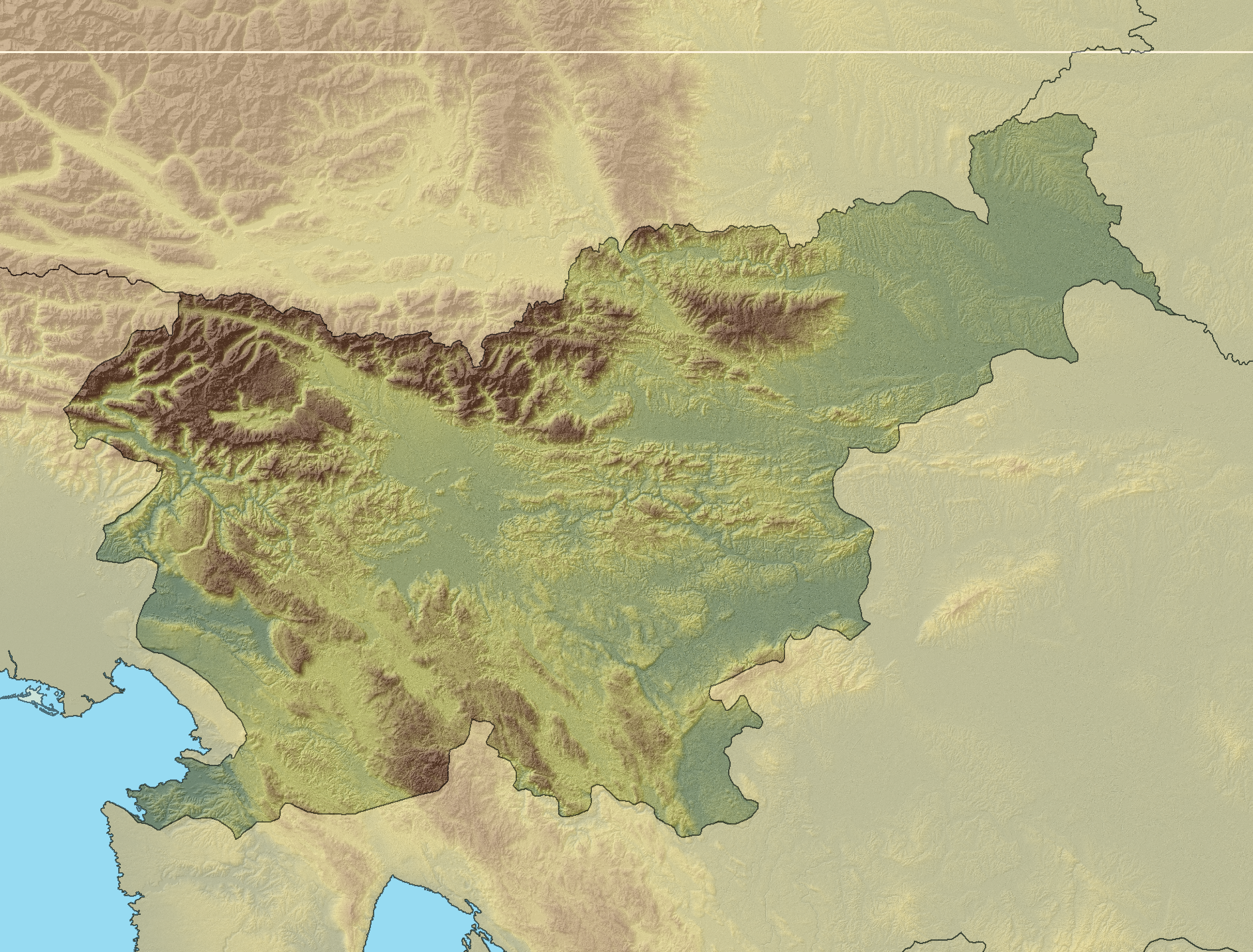 Relief map of Slovenia. World Mercator projection 47.1° N S: 45.2° N W: 13.2° E E: 16.8° E Digital elevation model and Hillshade for this image have been produced from data from ASTER mission. Borders of Slovenia and neighbouring countries made from personal data base of former SFRY countries and it's naighbours.